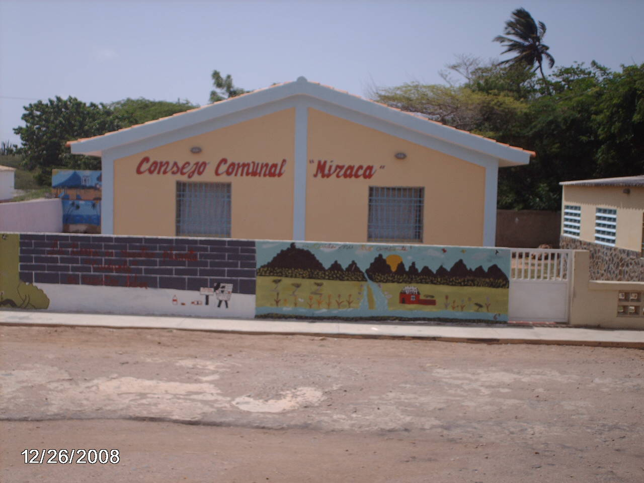 Photo